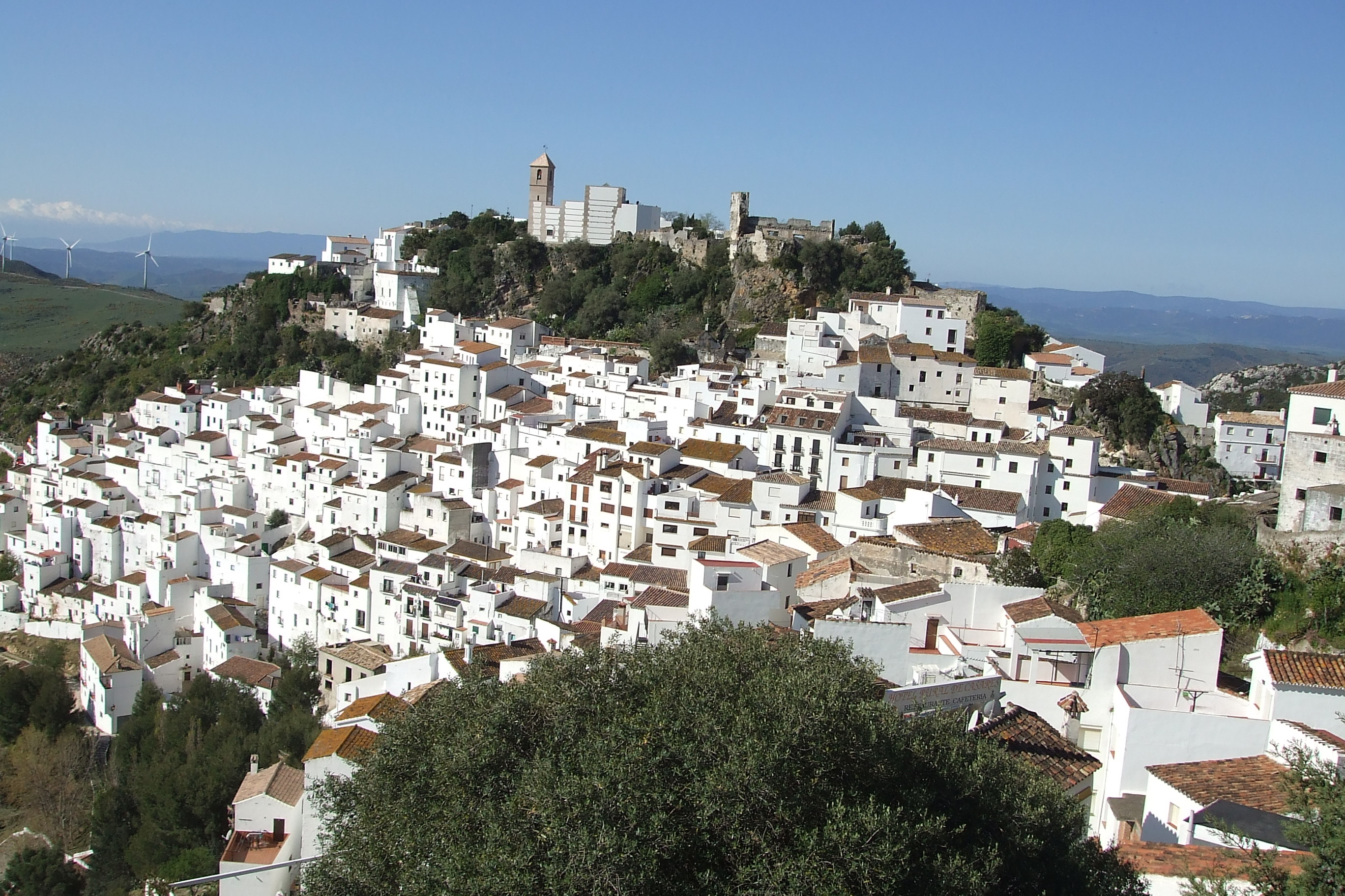 View of Casares, Málaga, Spain